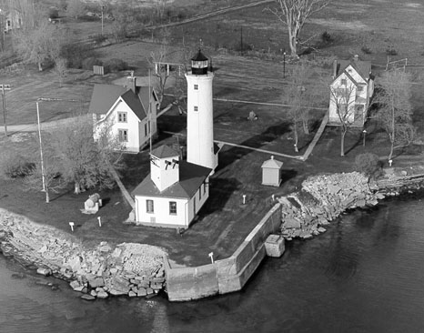 Lighthouse at Tibbets Point, NY - Lake Ontario at the St Lawrence River